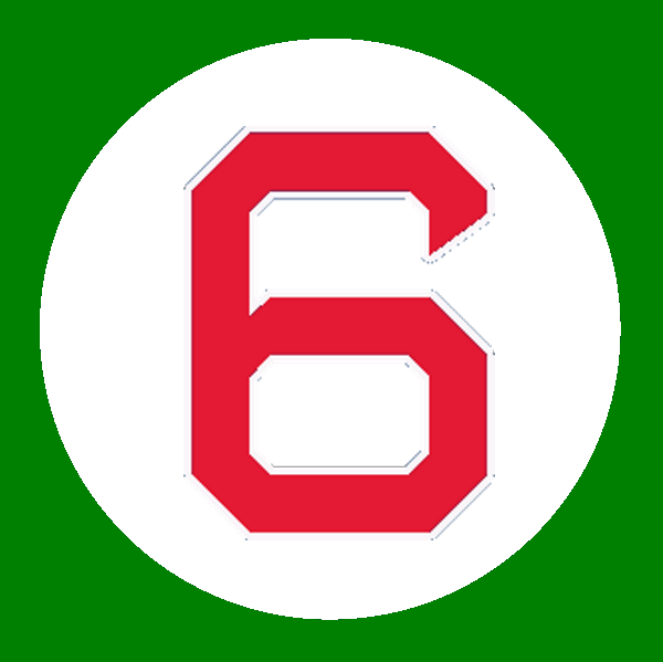 Red Sox retired numbers as hung on the right-field facade during the 2016 season in Fenway Park